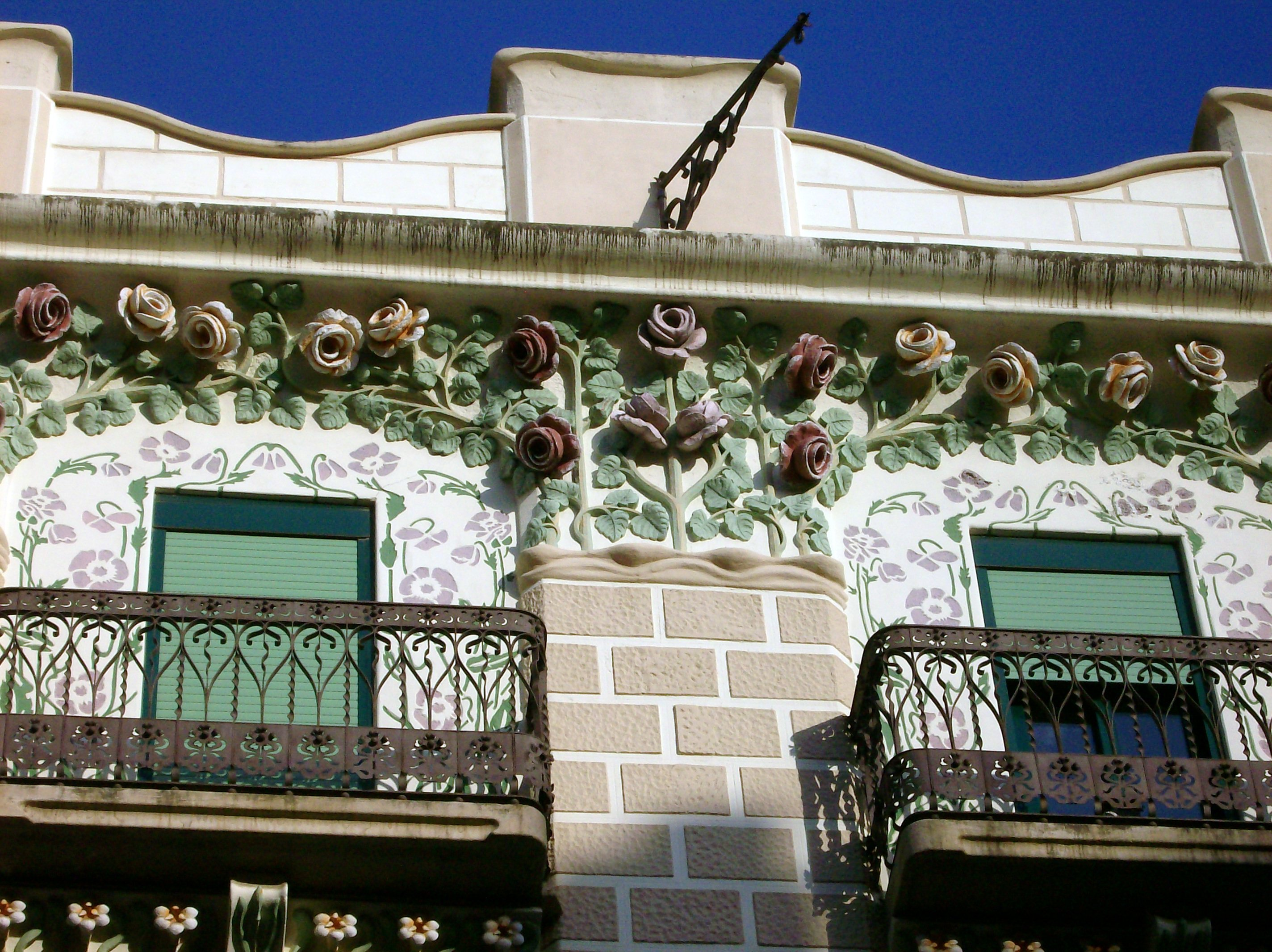 Reus. Casa Anguera